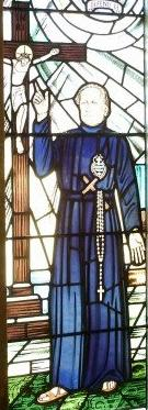 Ignatius Spencer, window from St. Anns and Blessed Dominic, Sutton